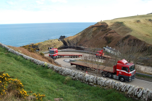 Berridale Brae hairpin. The A9 is one of only two roads into Caithness and the other way is much longer and single track for much of its length. The railway is an alternative but not much used. At Berridale the A9 is forced to drop around 150 mts from the moor and climb back up again inside a distance of 2 km. This photo shows the hairpin bend on the north side of the Berridale Braes. These three artics were part of a fleet of five convoying up the hill and demonstrate how far out into the opposite carriageway they have to go to get around the bend. Laden trucks have to go even further out to avoid the very steep inside part of the bend. Whilst it is now much modified from the original bend it is still a major obstacle for all heavily laden vehicles particularly coaches and heavy goods vehicles with a long steep drop to the dale floor to keep everybody alert. Taken from the old cemetery.